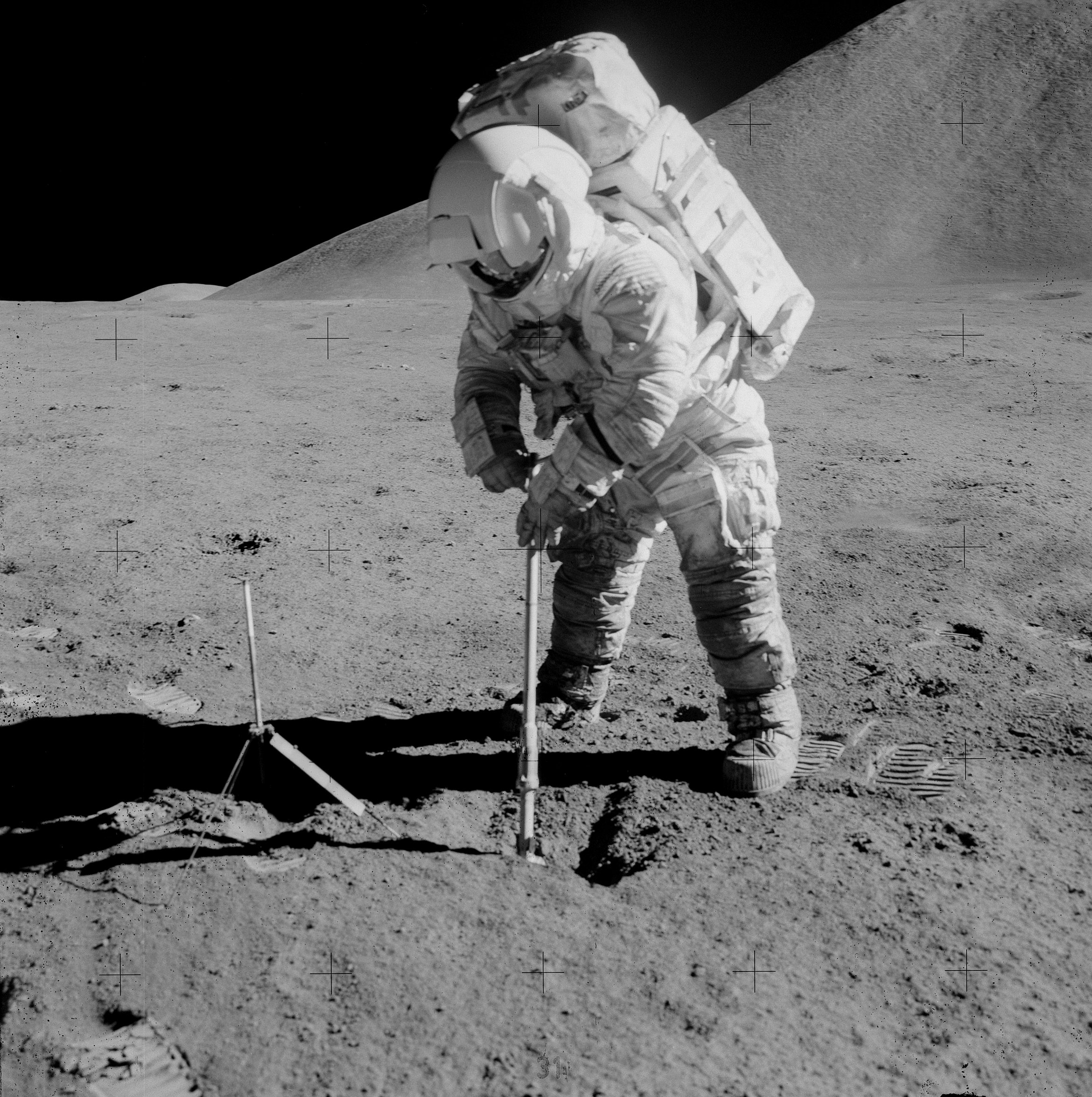 Irwin digging a trench at Station 8